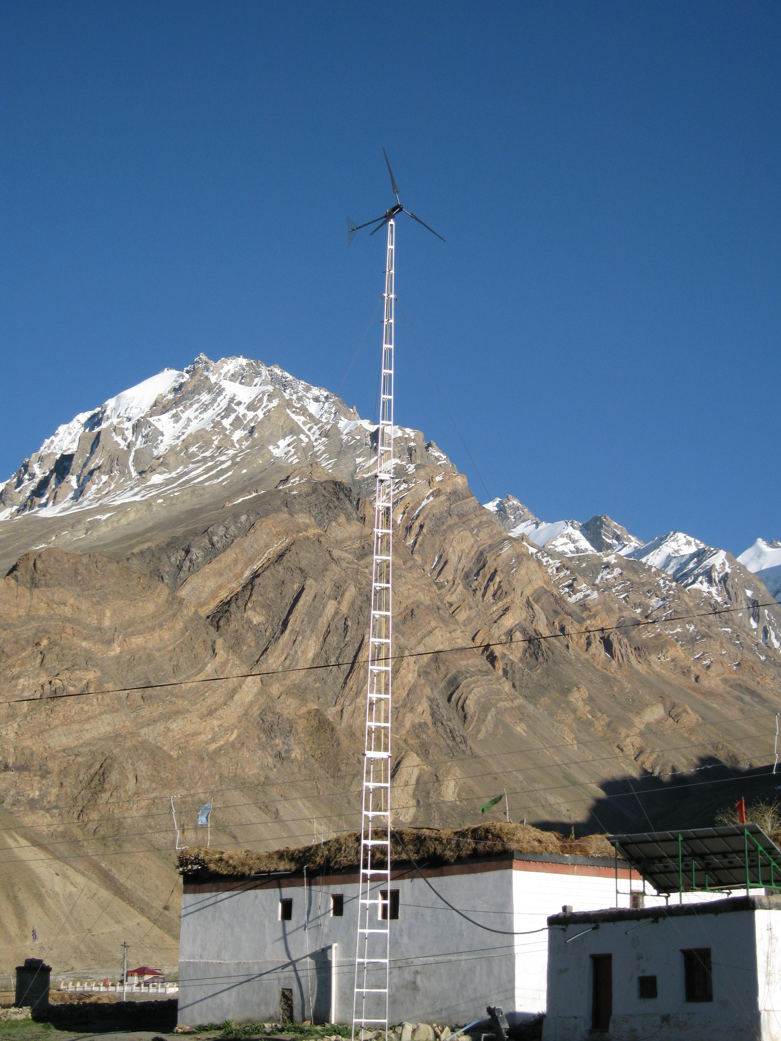 A windmill in Lossar, in the Himalayas - reportedly the highest wind turbine in the world (by altitude)